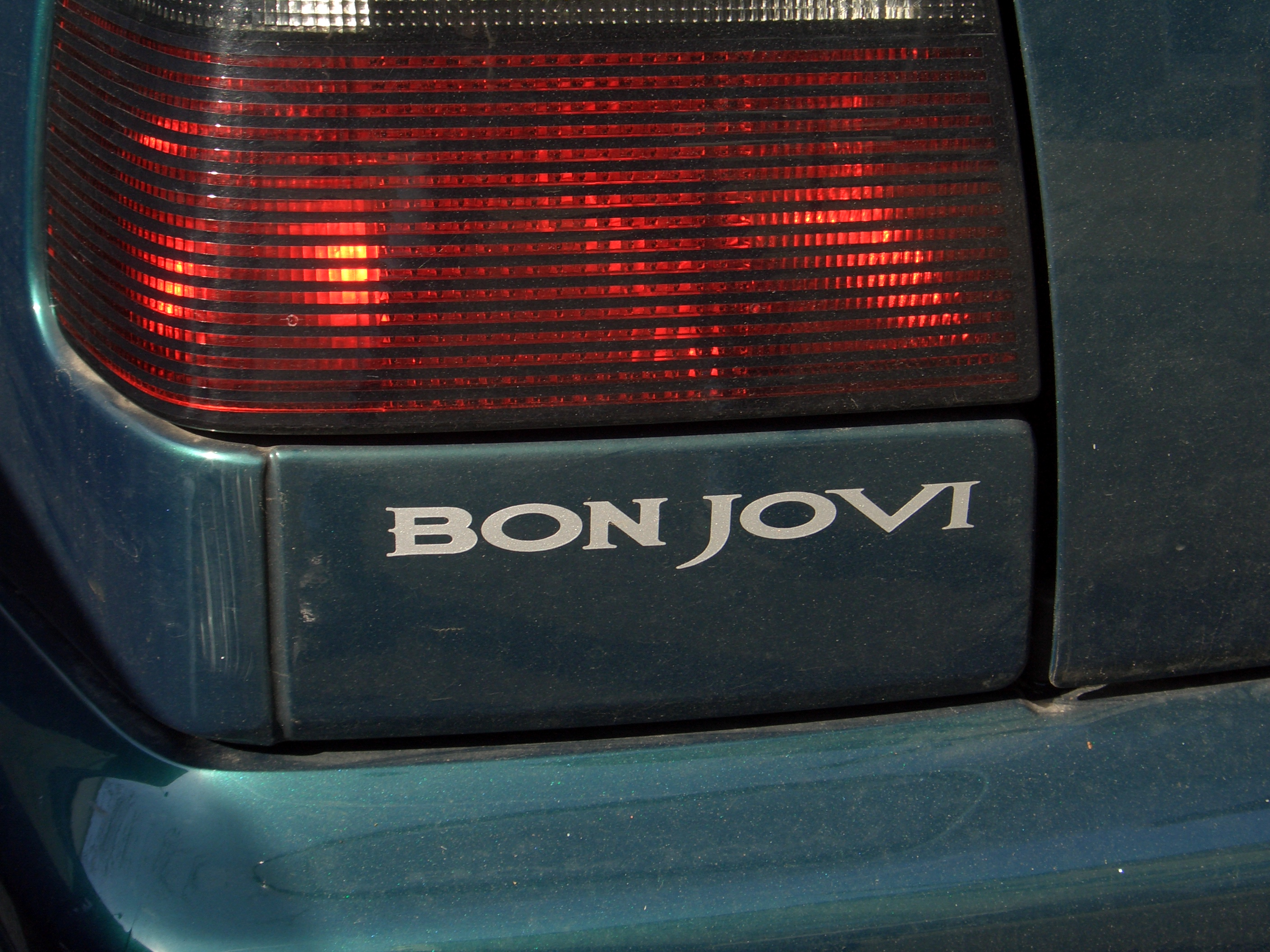 VW Golf, 3rd Generation (1H), 1991-1997, special edition BON JOVI (1996), left rear end